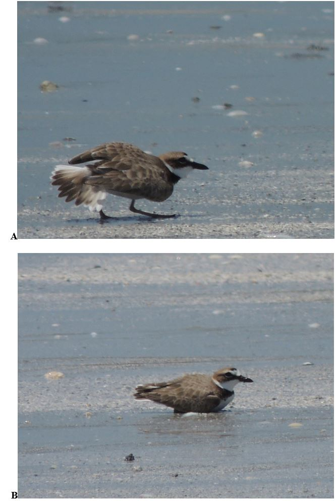 Broken-wing display in Charadrius wilsonia on Coroa do Avião Island, Igarassu, Brazil.